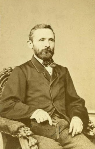 Vincențiu Babeș as a member of the Hungarian Parliament